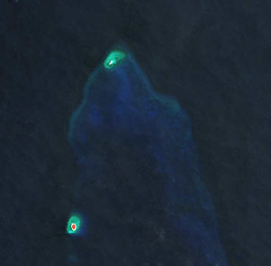 Flat Island & Nanshan Island are two small islands of Spratly Islands.